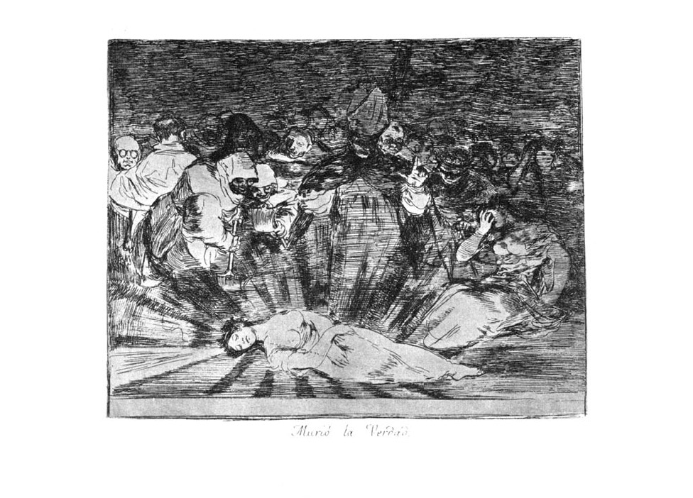 Plate 79: Murió la Verdad (The truth has died)